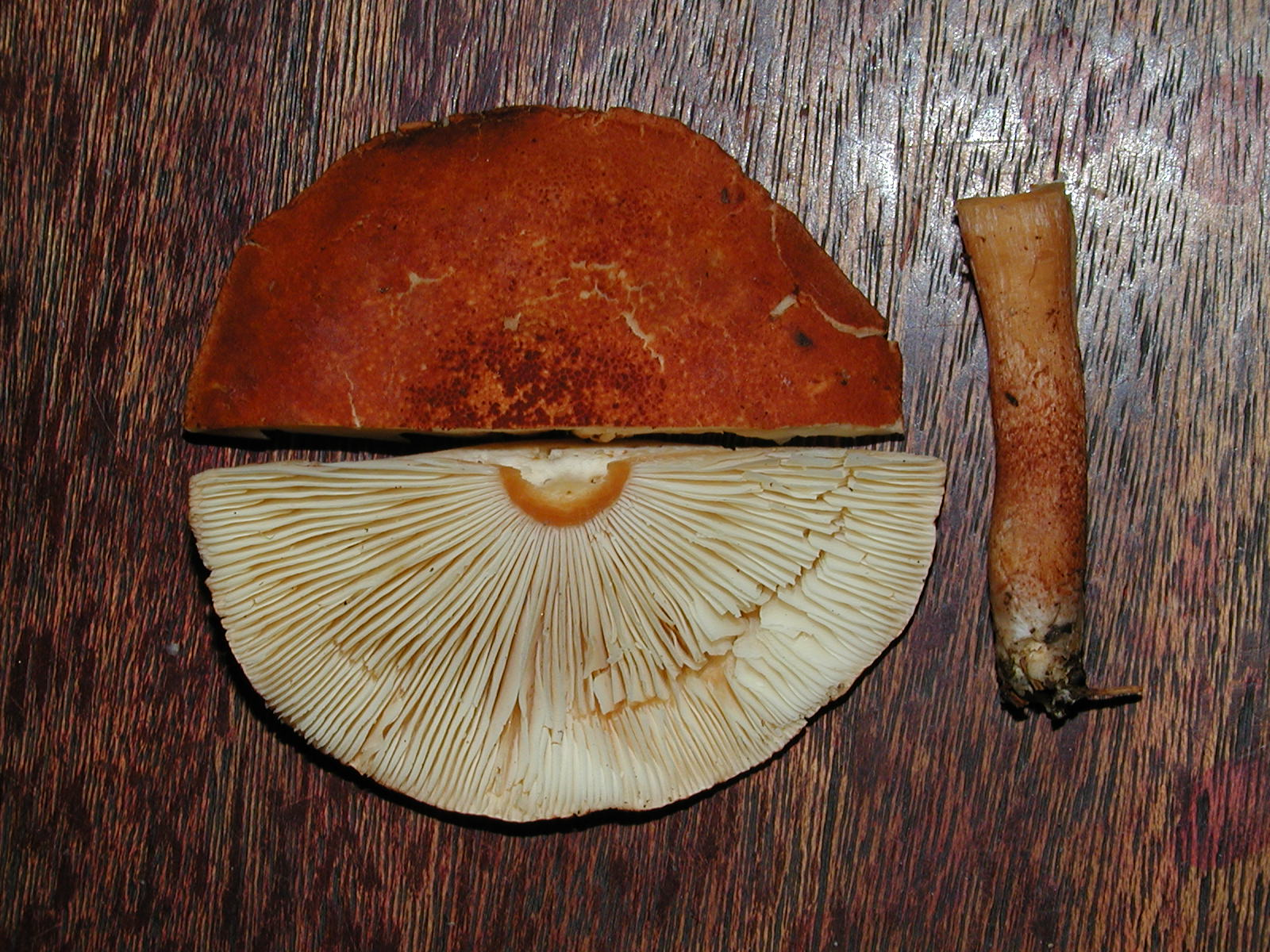 The mushroom Cystodermella cinnabarina (Alb. & Schwein.) Harmaja. Specimen found in Eureka, Humboldt Co., California, USA. Notes: "Identified from key/descriptions in Mushrooms Demystified by David Arora. Found in a spruce forest."